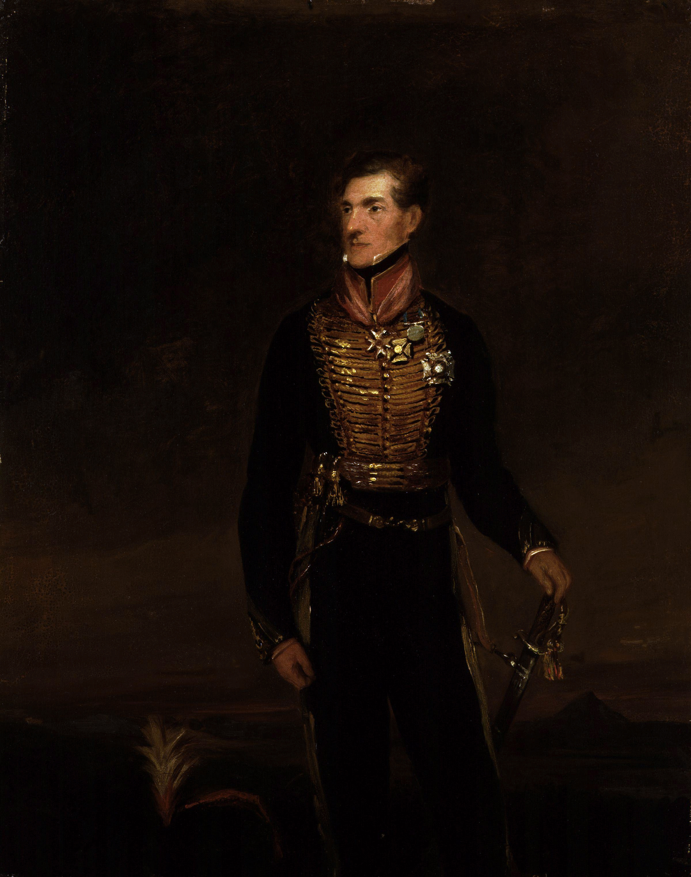 Sir Hew Dalrymple Ross, by William Salter (died 1875). All images in this batch have been confirmed as author died before 1939 according to the official death date listed by the NPG.